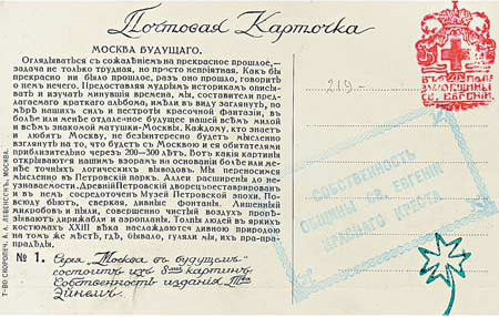 Moscow in XXIII Century. Petrovsky Park reverse (ohter side). . Russian Empire postcard, Einem Factory, 1914, Moscow.